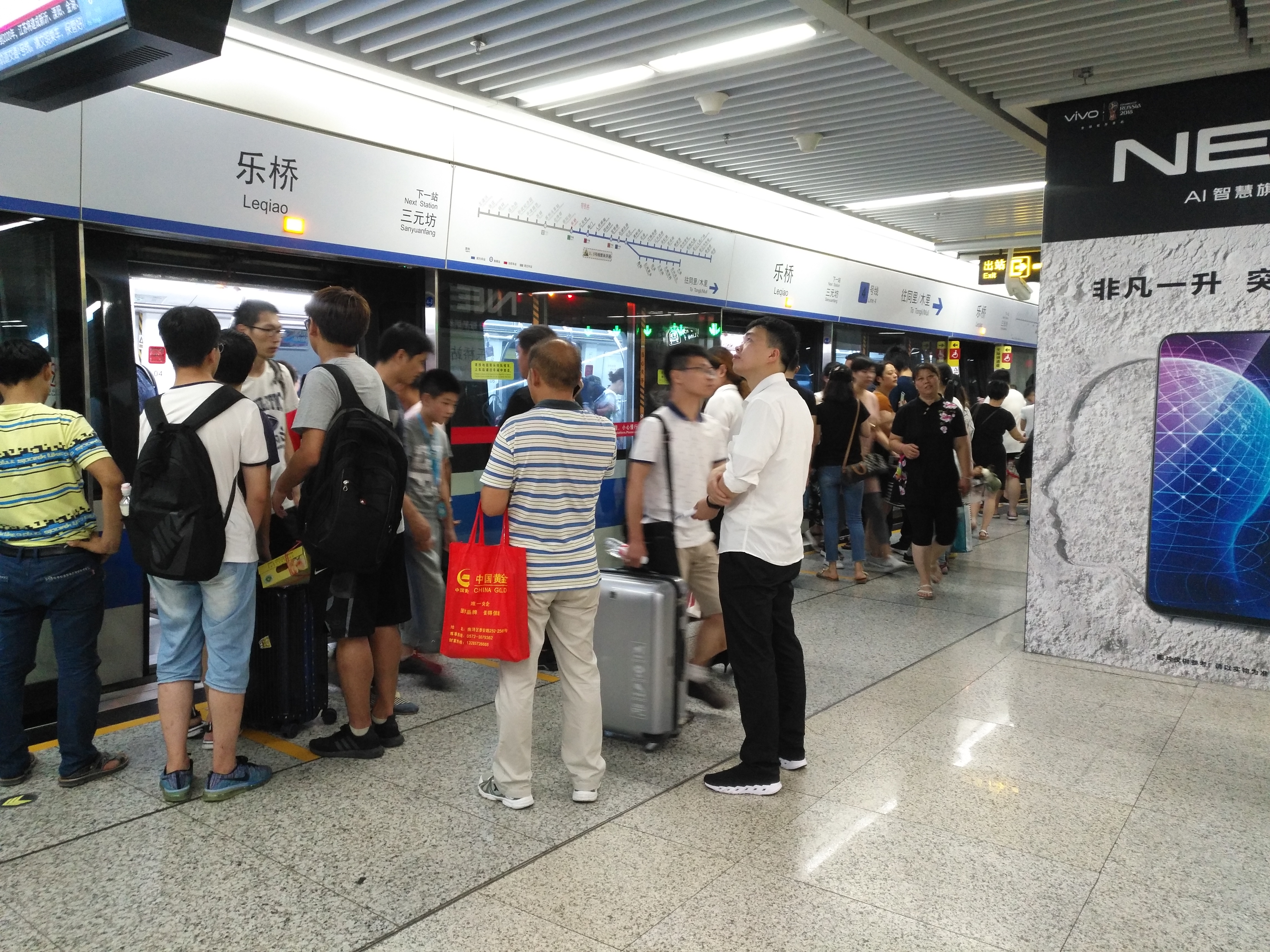 Platform of Leqiao Station of Line 4, Suzhou Rail Transit (towards Tongli or Muli) 中文（中国大陆）: 苏州轨道交通4号线乐桥站站台（同里/木里方向）